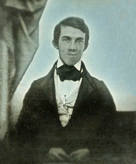 Daguerreotype of Oliver Wendell Holmes Sr., 1841 bMS Am 2066.8.1, Houghton Library, Harvard University